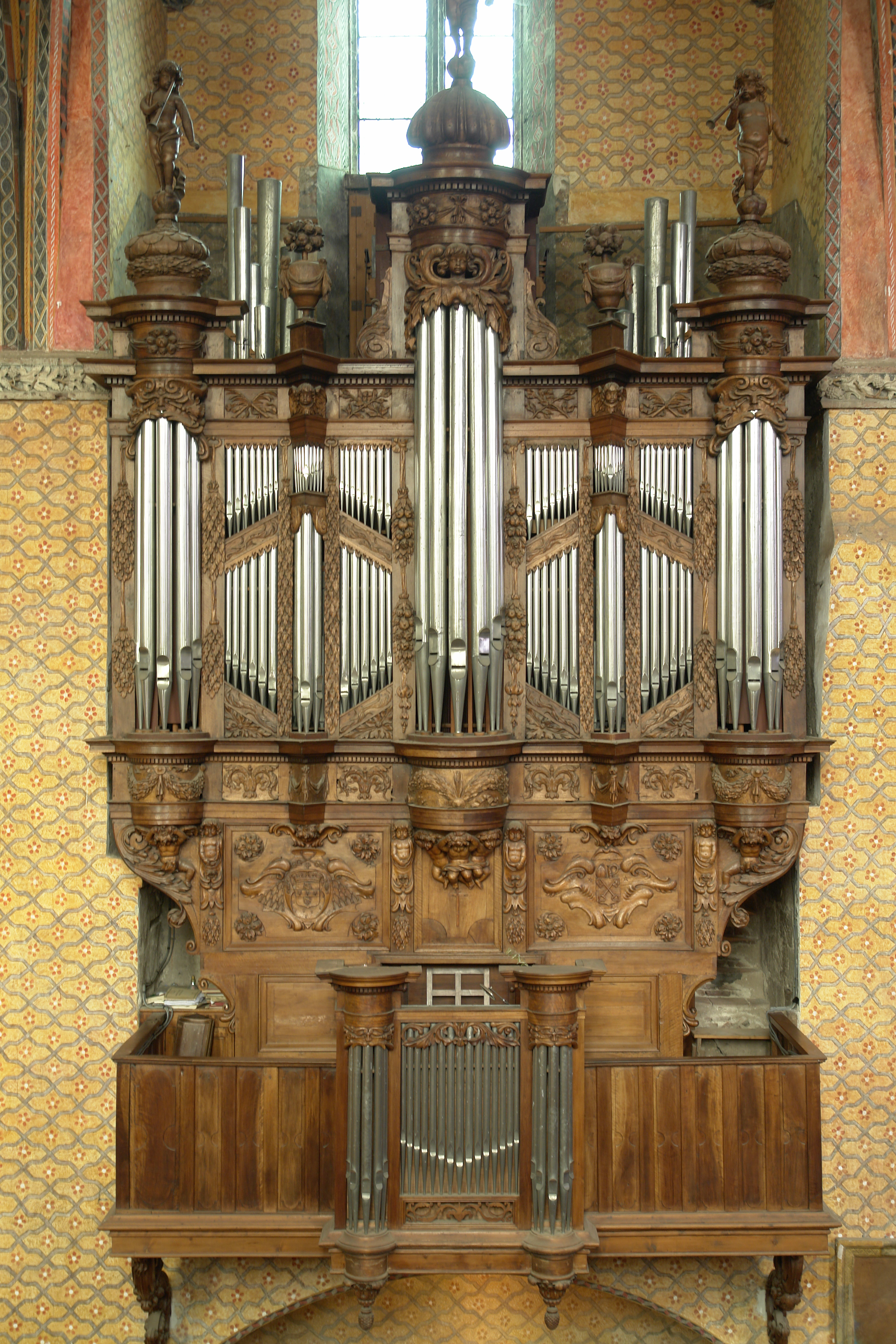 Organ in the Abbey Saint-Pierre, Moissac, France